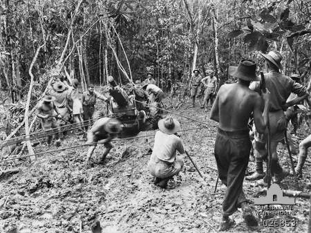 Australians from the 14th Field Regiment and the 2/1st Pioneer Battalion move a 25-pdr field gun up the Kokoda Trail, September 1942